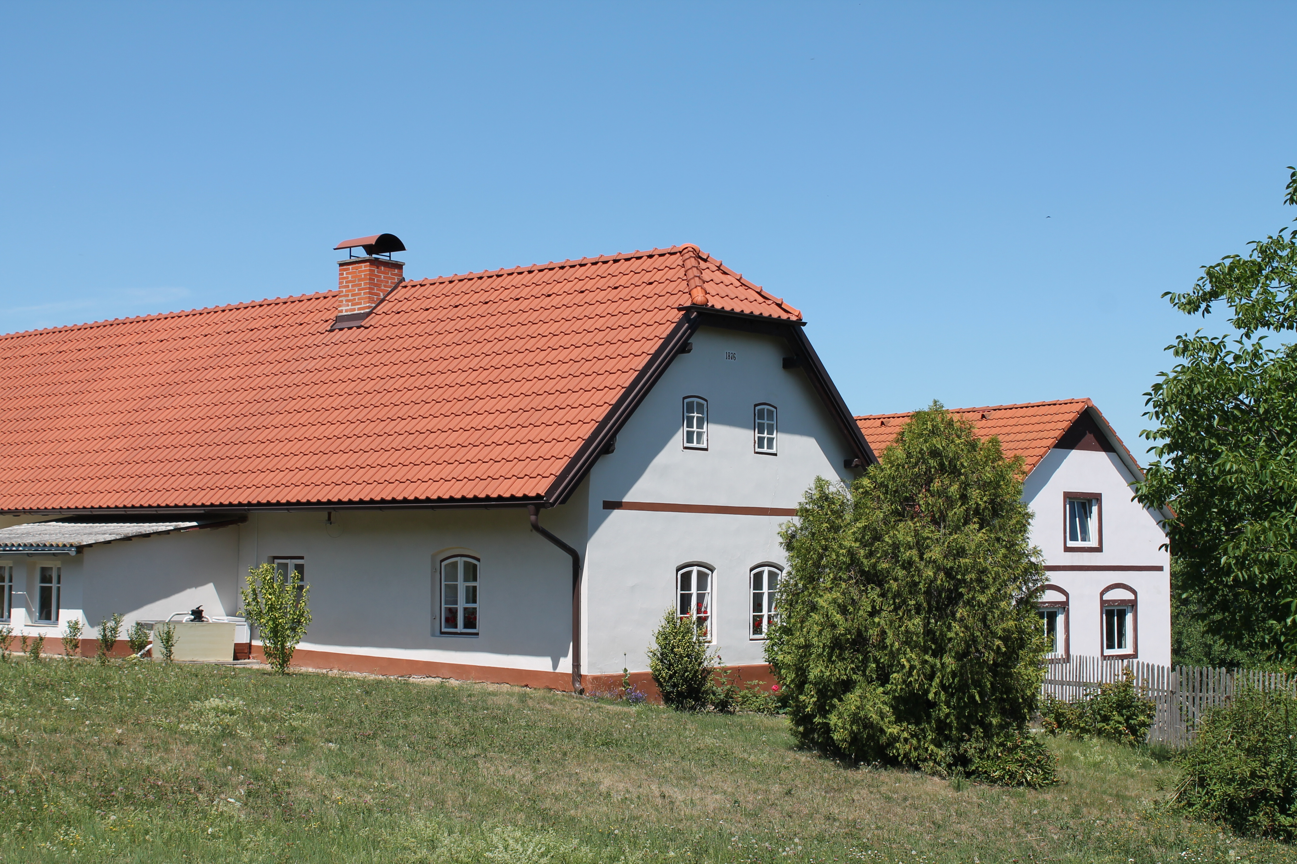 Mýtka No. 6, Mladoňovice, Chrudim District, Czech Republic